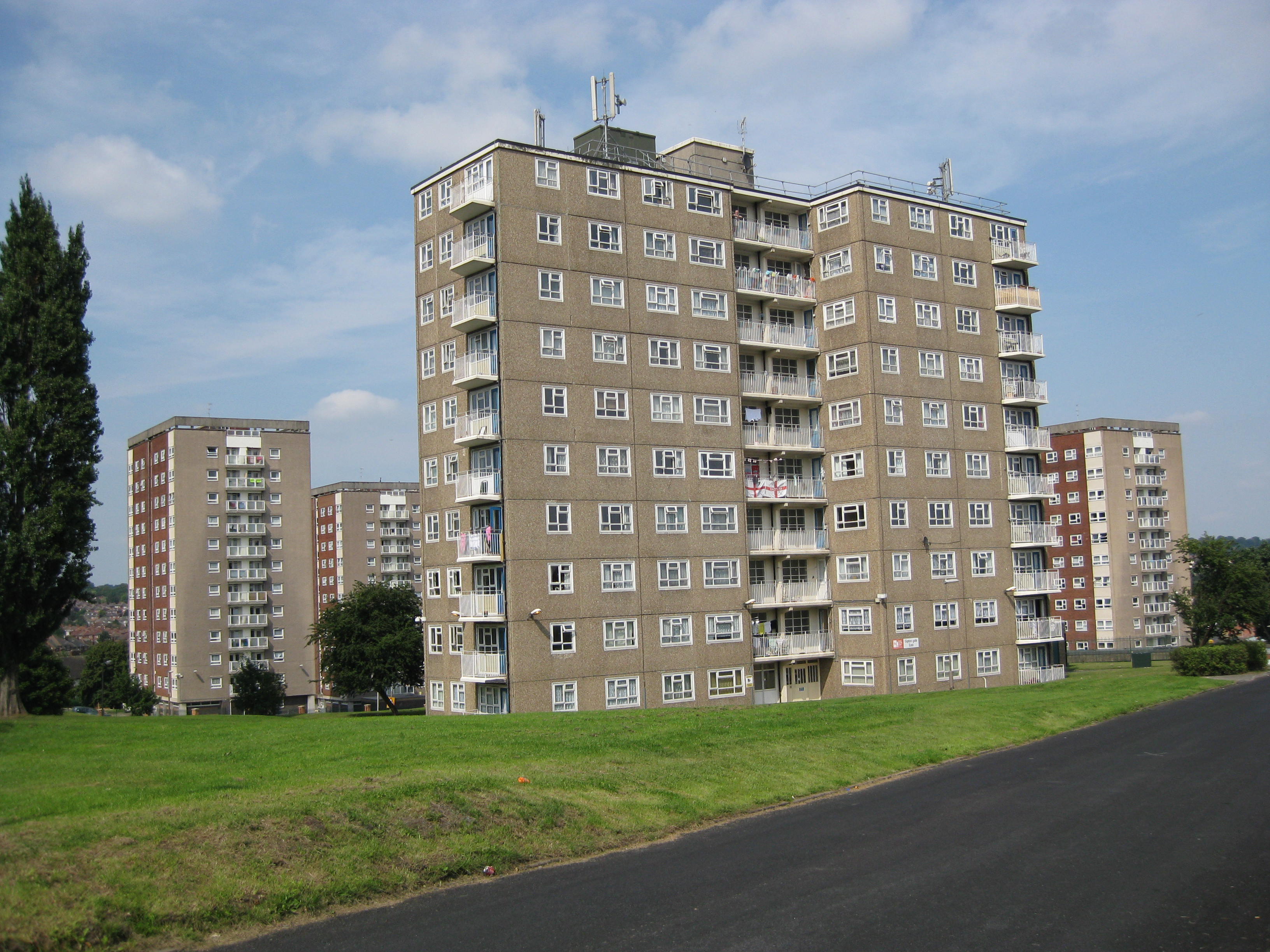 Gipton Gate East, and other blocks of flats on the Gipton estate, viewed from Oak Tree Walk, Leeds LS9 6SU